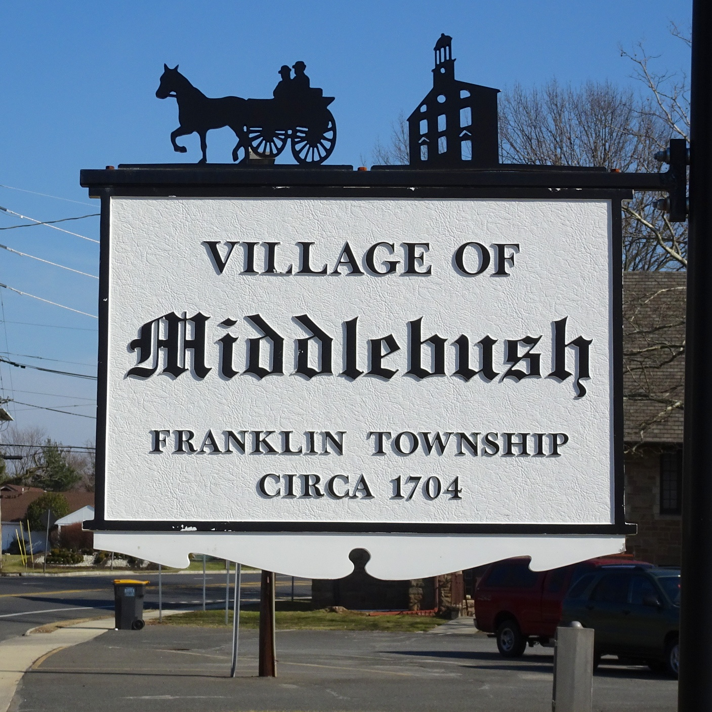 Information sign for Middlebush, New Jersey.